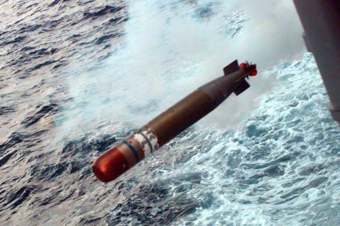 A U.S. Navy Mk 46 exercise torpedo is launched from the Spruance-class destroyer USS Moosbrugger (DD-980) off the coast of Brazil during exercise "UNITAS 37-96" on 21 August 1996.